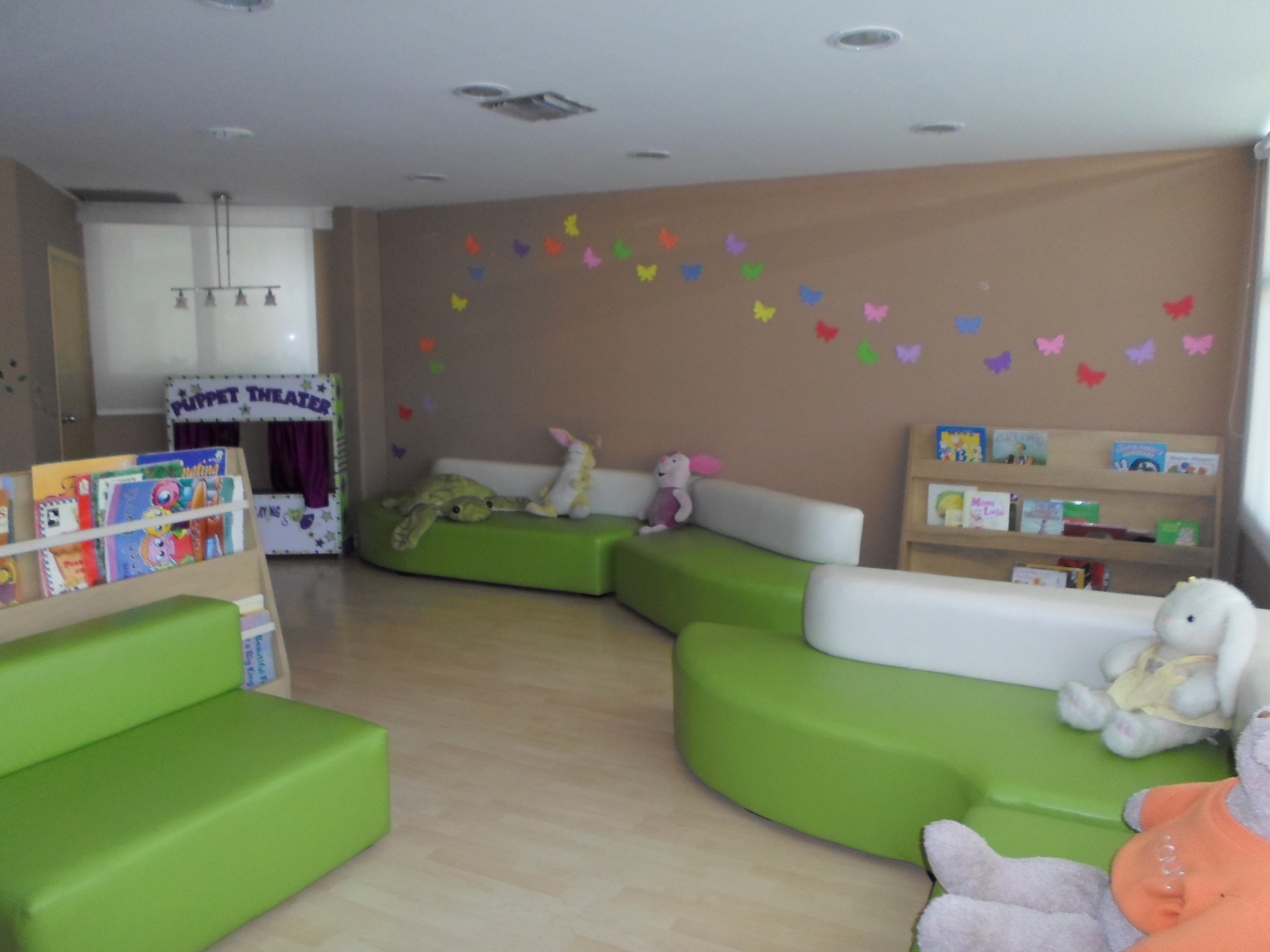 Preschool Library. Designed by KCP Preschool students through the Reggio Emilia program.